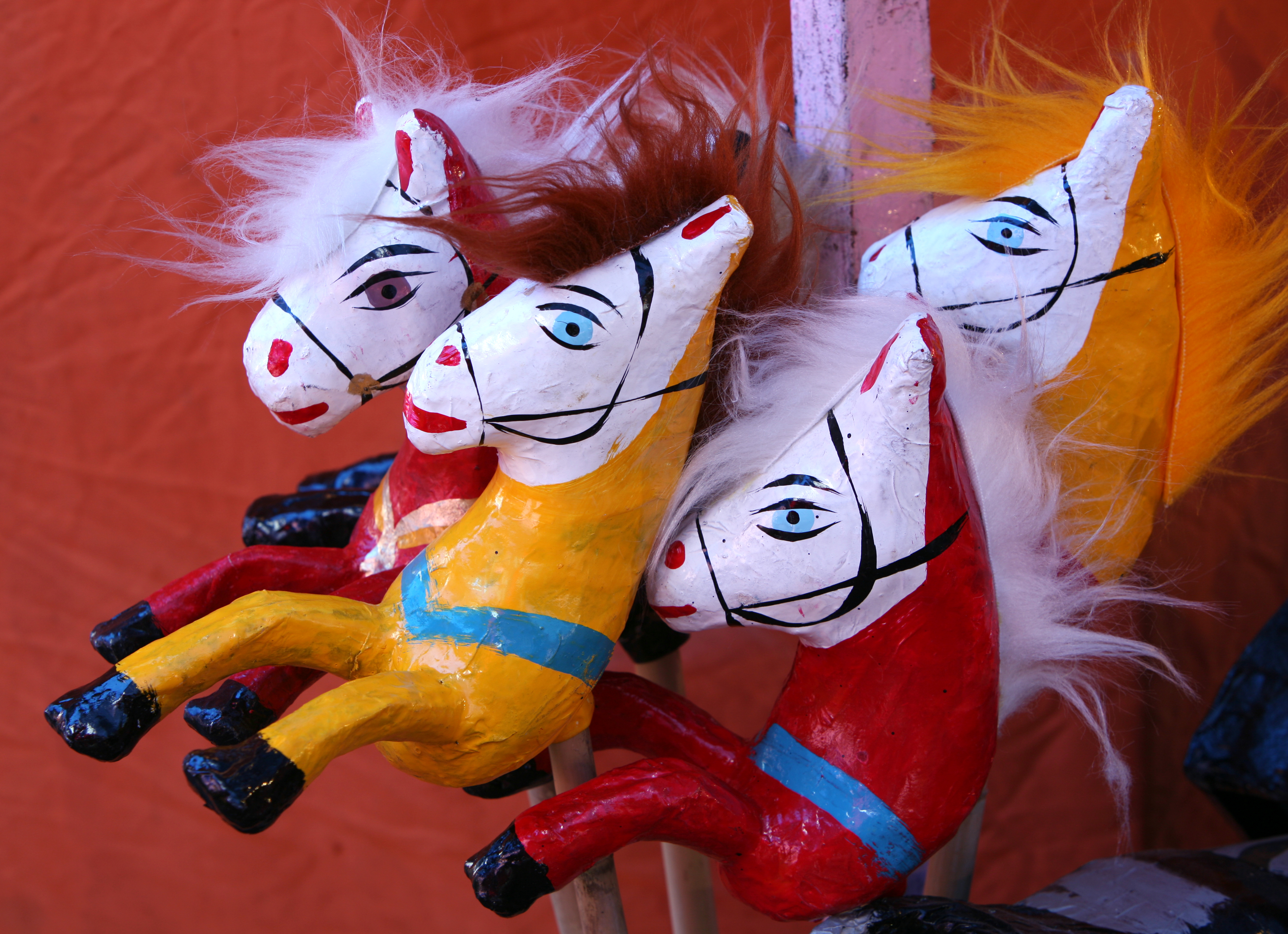 Popular Mexican paper mache horses. A dying tradition.